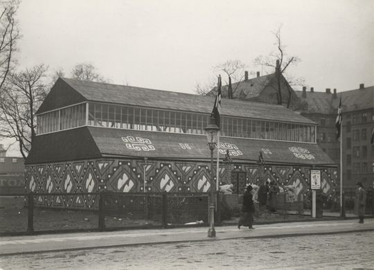 A vintage photo of the artist group Grønningen's first exhibition building known as Indianerhytten at Grønningen in Copenhagen, Denmark